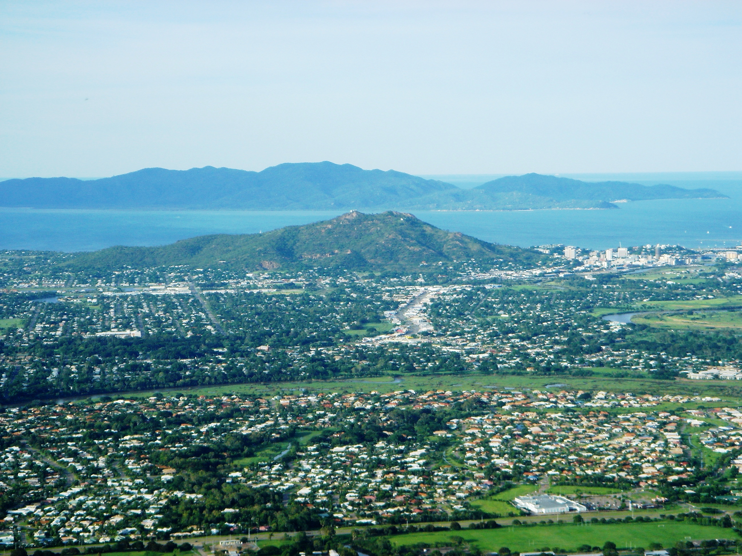 Panorama of Castle Hill from Mt Stuart